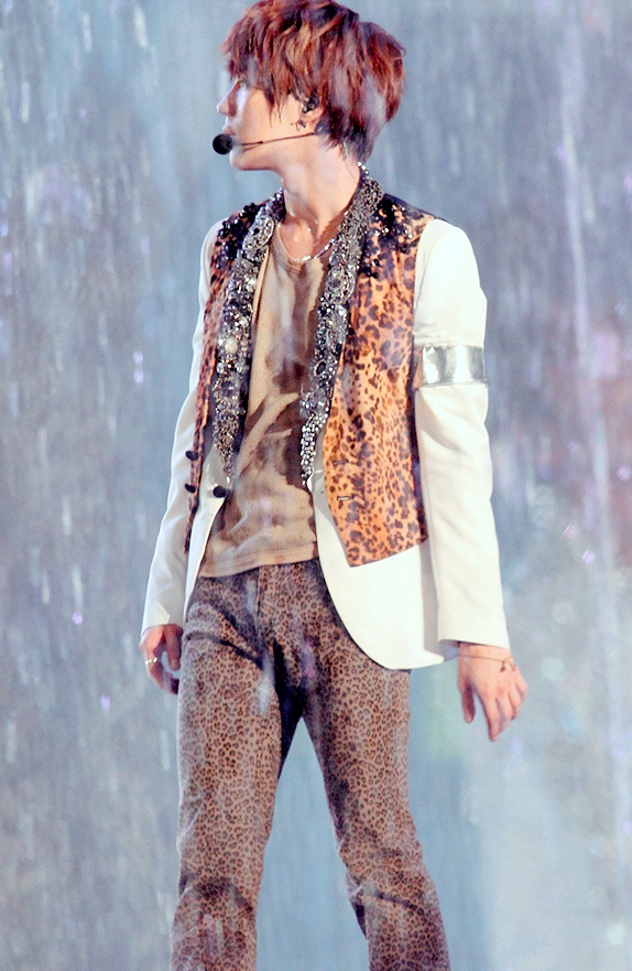 Taemin at the SHINee World Concert II in Seoul on July 21, 2012.